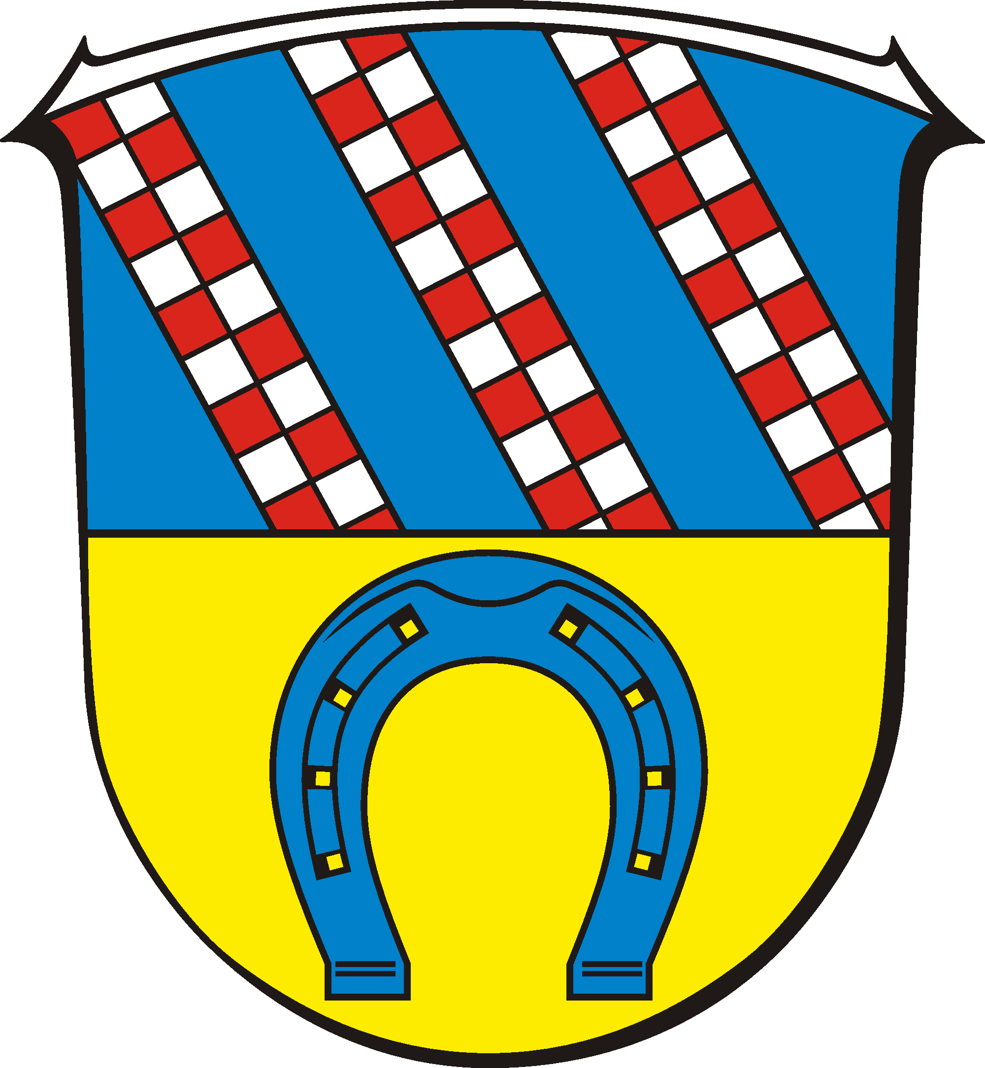 Coat of Arms of Messel